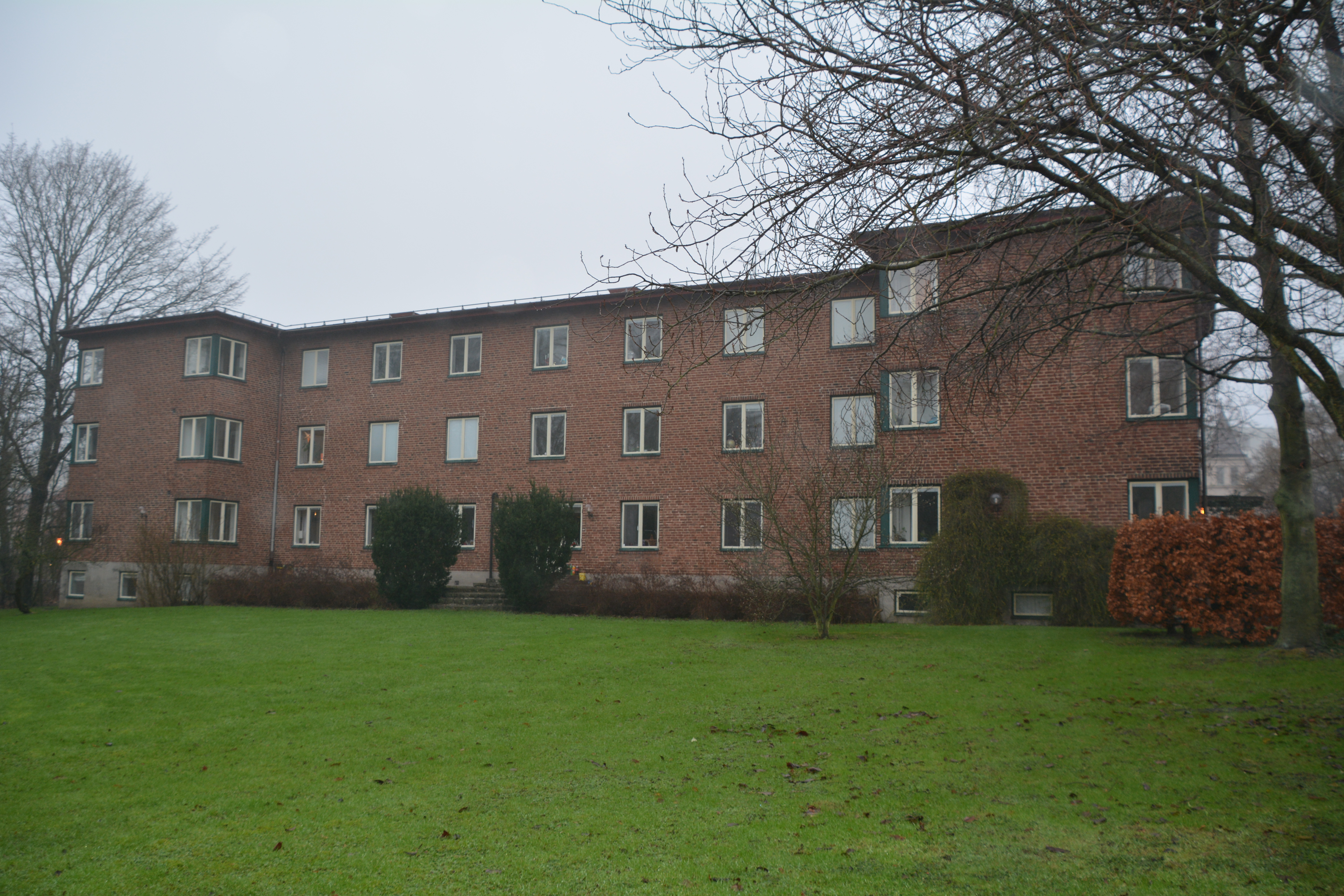 Lunds studentskegård, ritad av Arnold Salomon-Sörensen